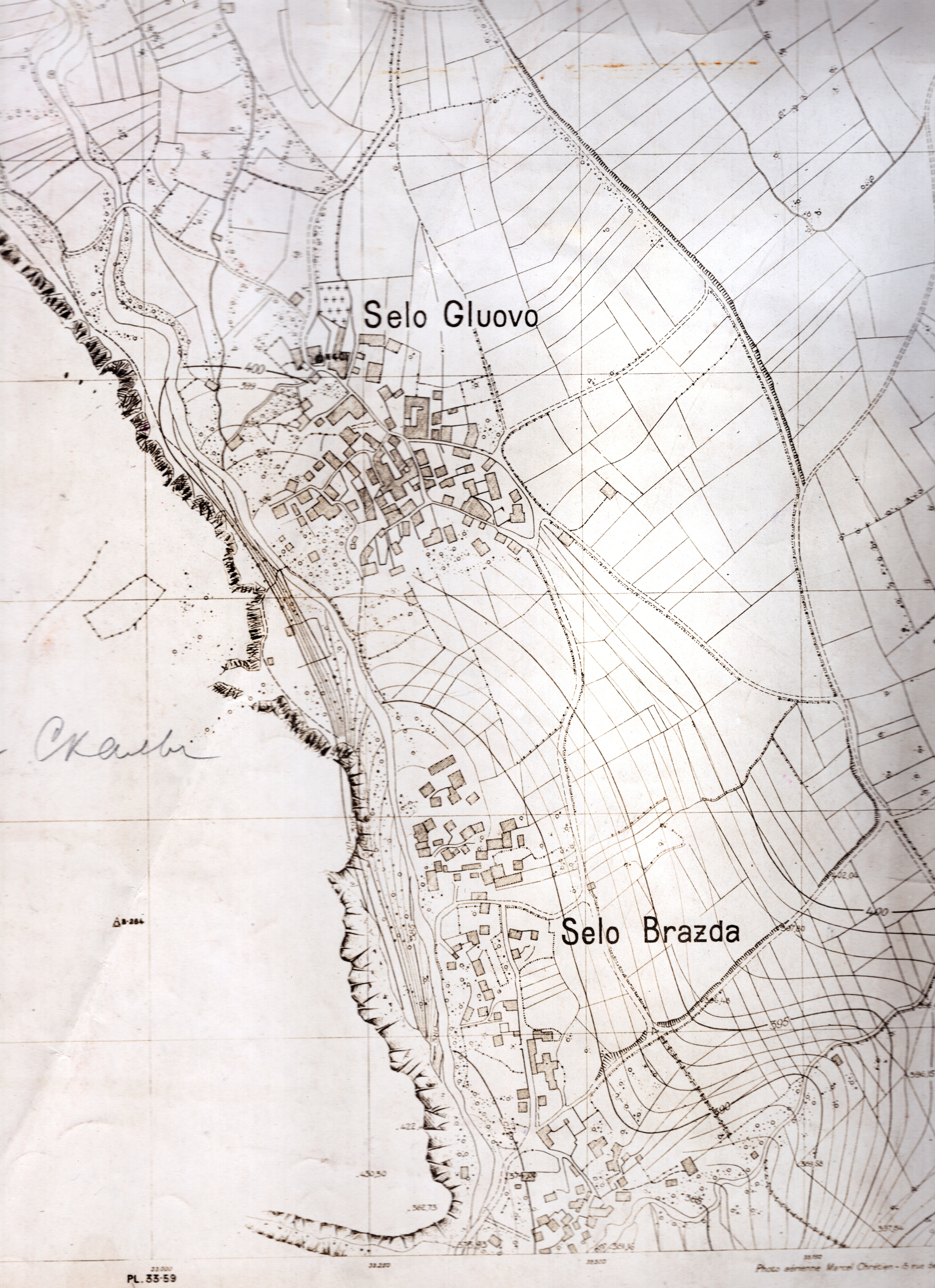 Geodesy map of Gluvo and Brazda, Macedonia, an aero photogrammetric map (1930s). This media file is produced by Wikipedian in Residence in Category:Wikipedian in Residence at DARM in 2017.